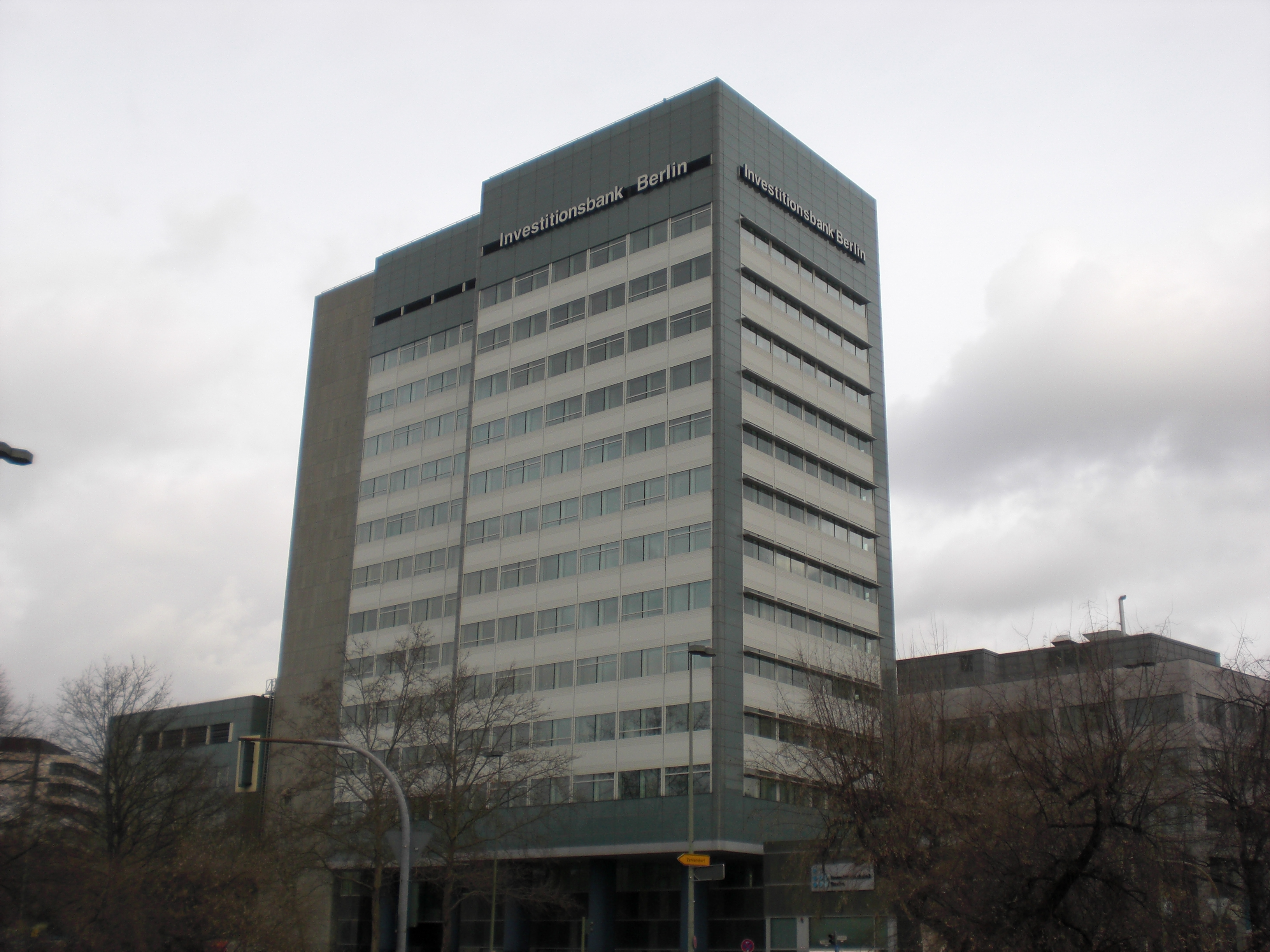 Skyscraper of the Investitionsbank Berlin located Bundesallee 210, 10179 Berlin